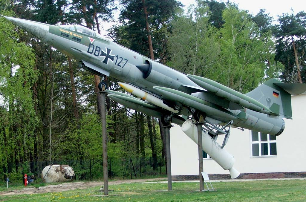 Lockheeed F-104 Starfighter - Luftwaffe Museum - Gatow